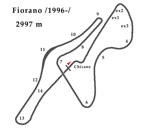 Fiorano Circuit is the private track owned by Ferrari (1996 - ) With chicane